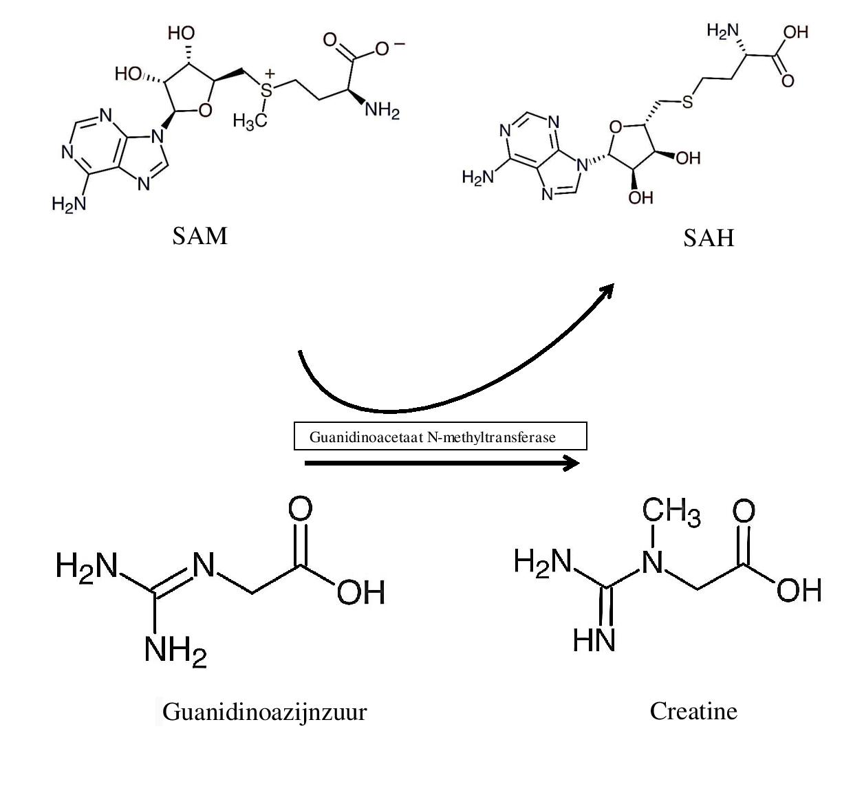 Demethylation of SAM